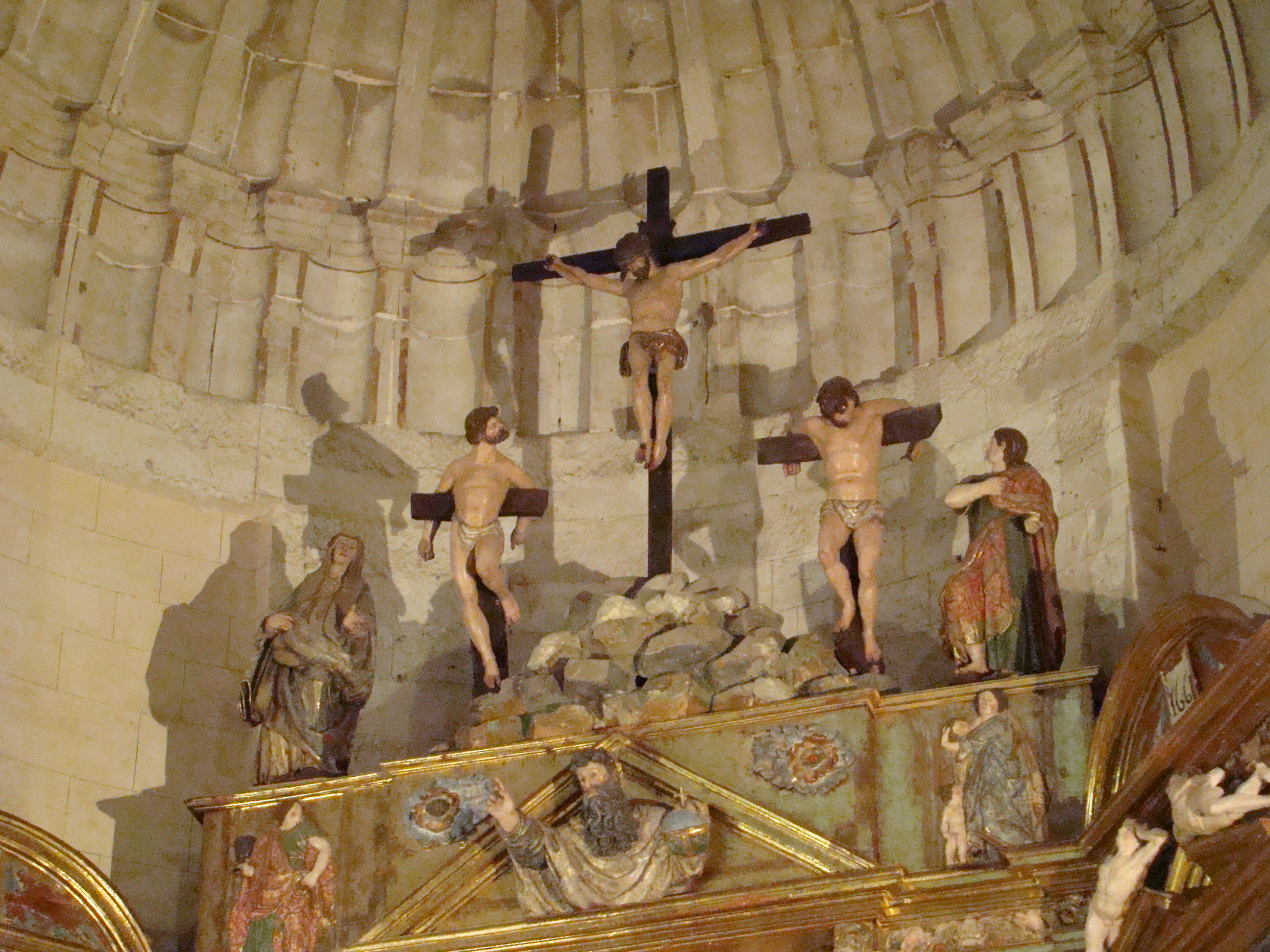 Monastery of La Santa Espina in the province of Valladolid. Detail of the top of the altarpiece in the church.